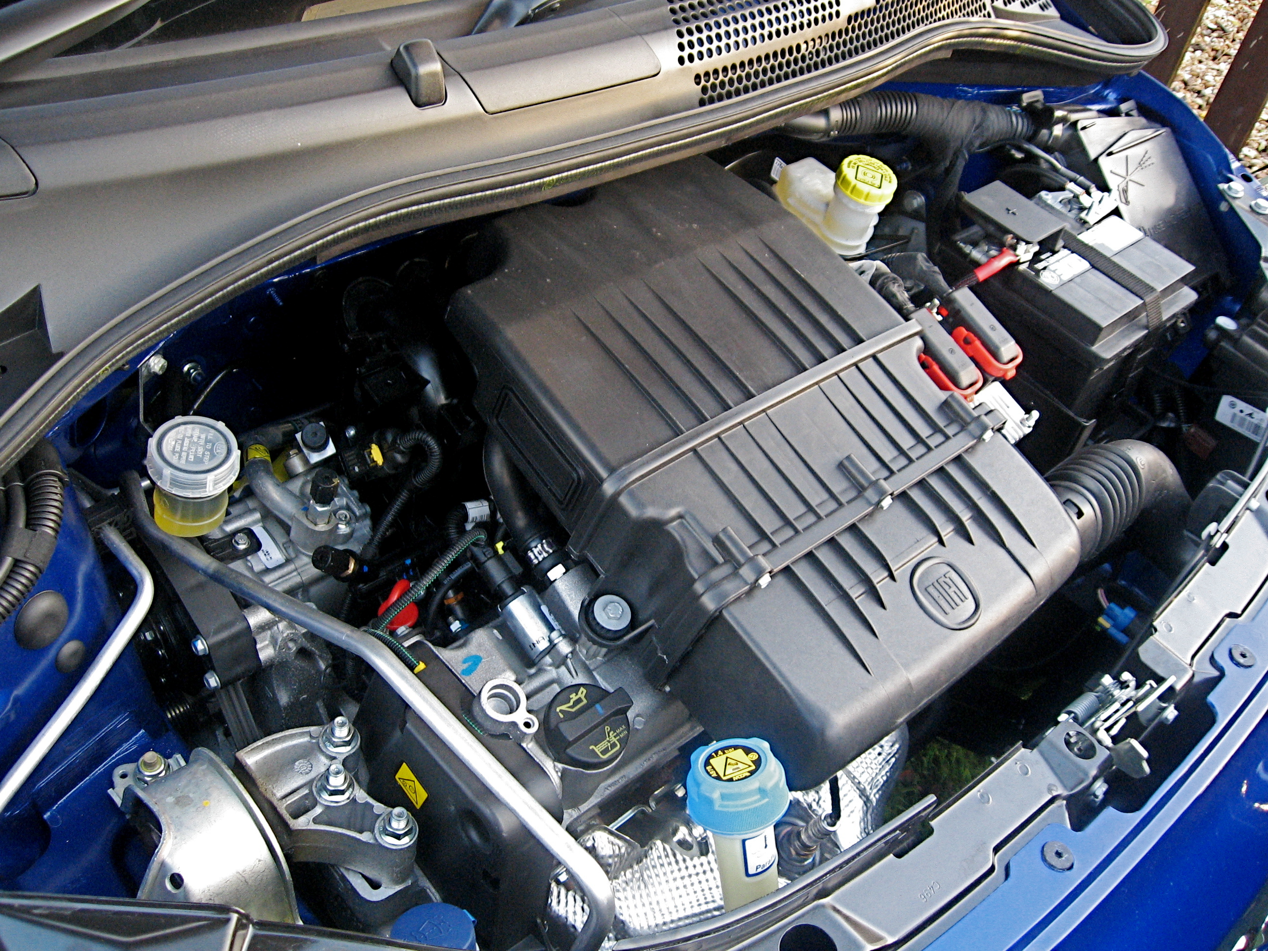 68 HP, 1,242 CC straight-4 EFI petrol engine in FIAT 500 1.2 Pop.